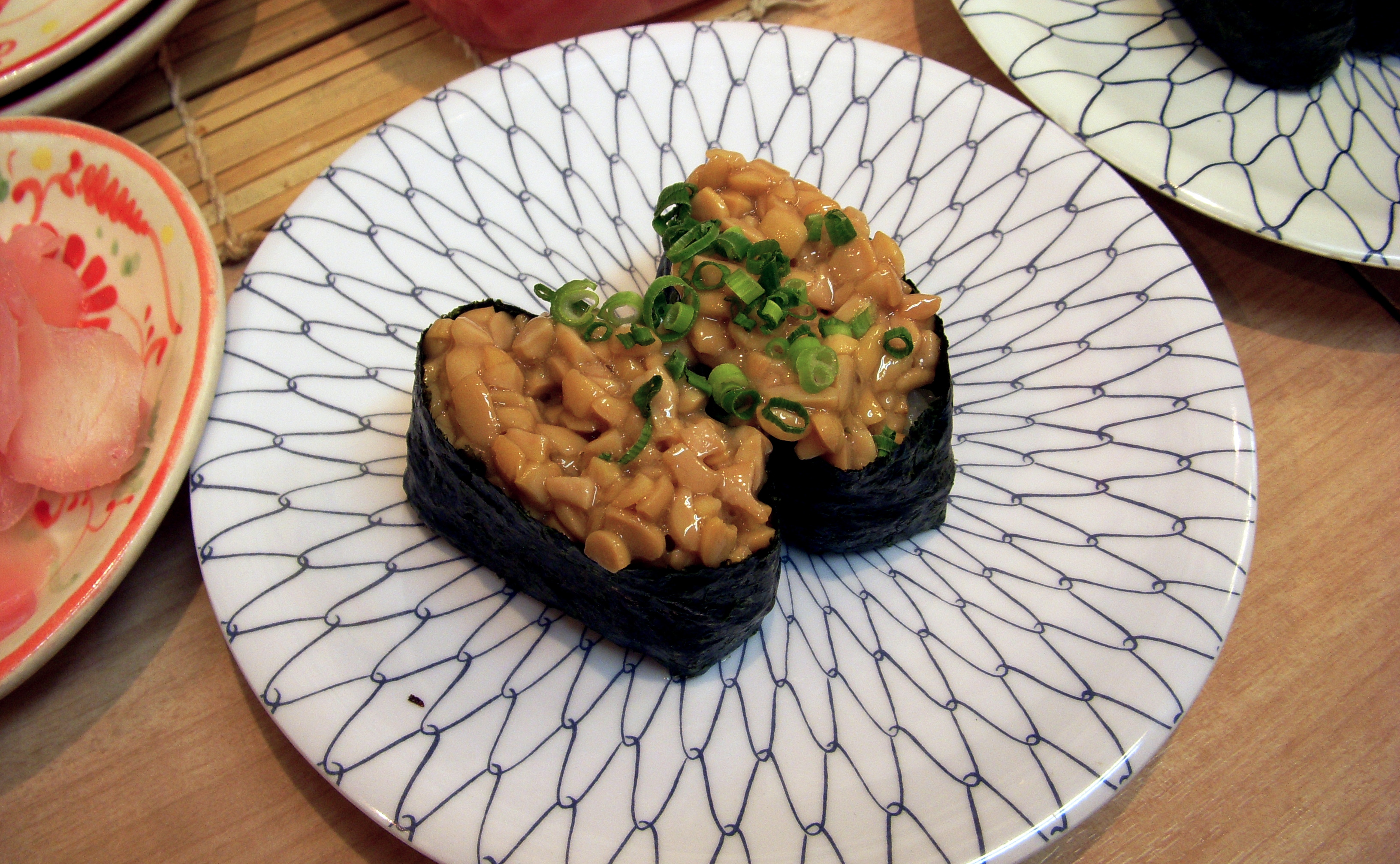 Roll sushiNatto (fermented soybean) sushi